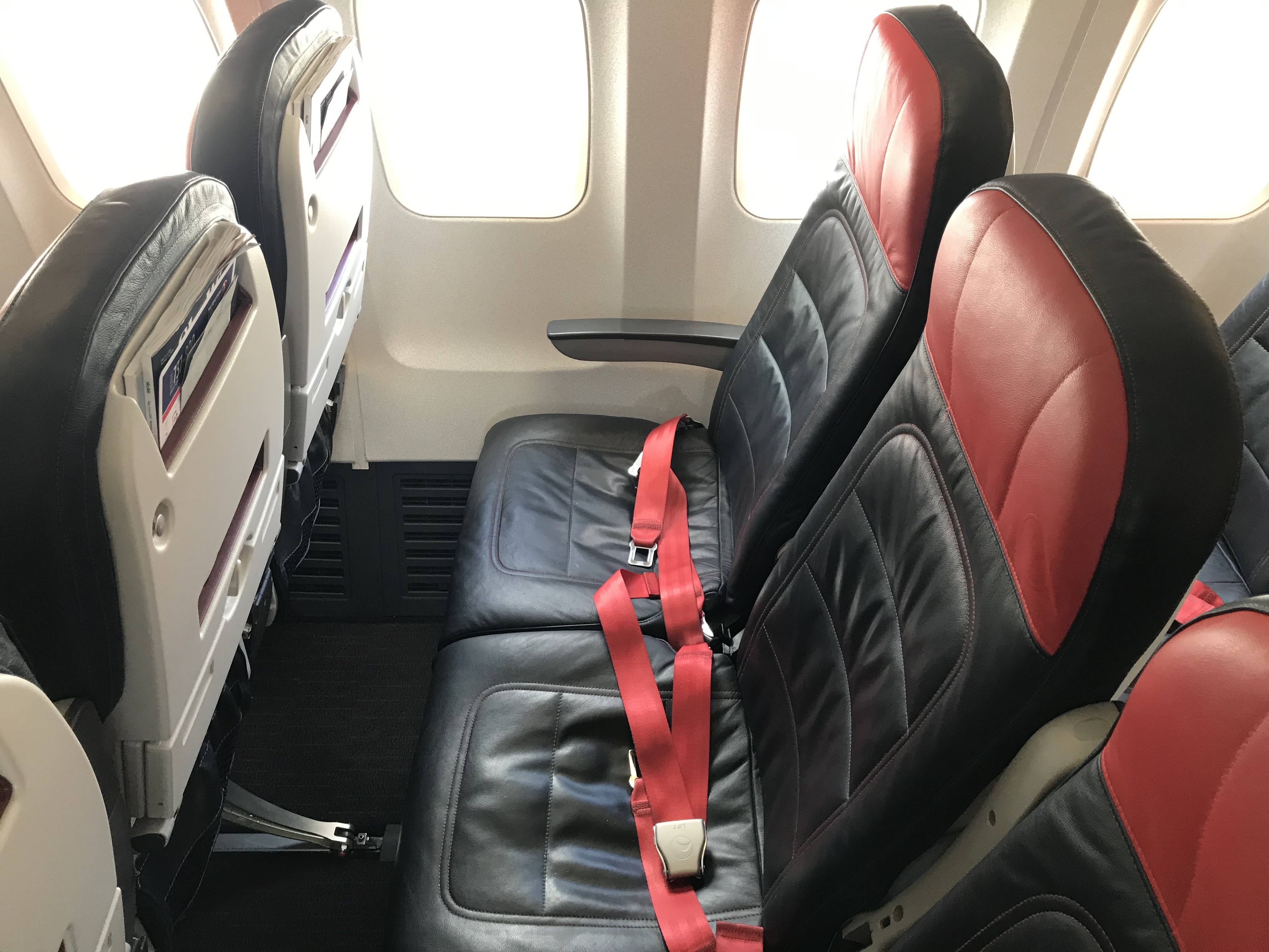 Cabin of an Boeing 737-800 of AnadoluJet